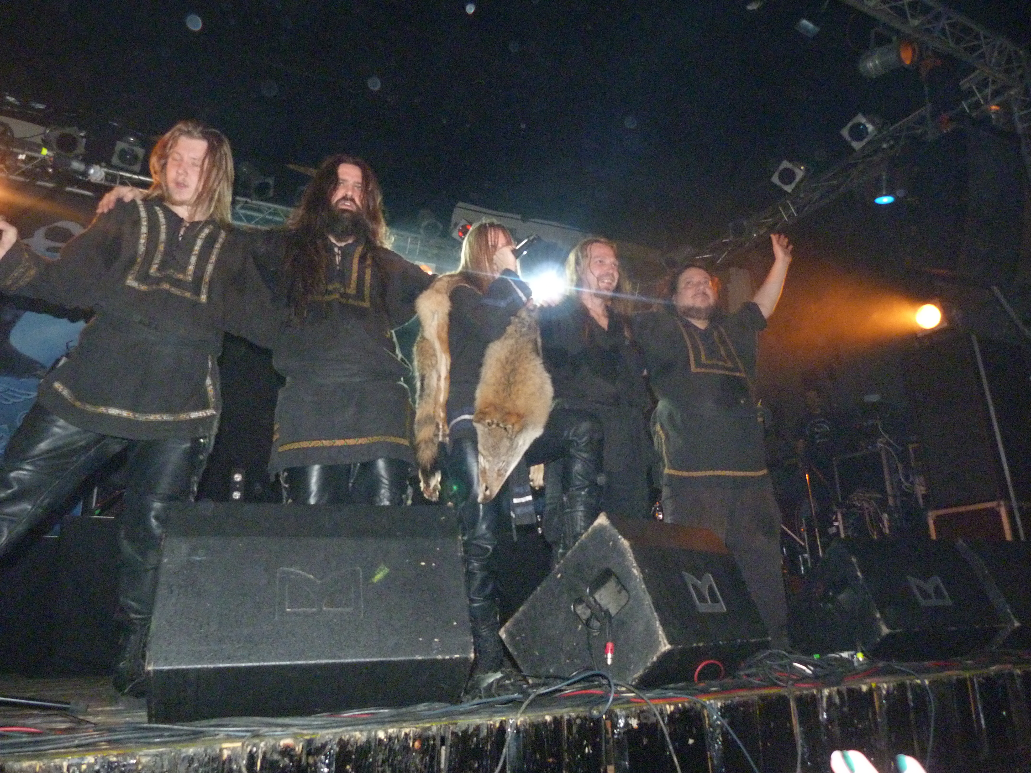 Live on the 10th of December 2014. Budapest, Club 202. The beginnings of ARKONA date back to 2002, when members of local pagan community "Vyatichi", Masha "Scream" Arhipova and Alexander "Warlock" Korolyov, decided to form a band that mirrored their individual philosophy and musical tastes. The band, at the time still known as Hyperborea, comprised Masha "Scream" Arhipova (vocals), Eugene Knyazev (guitar), Eugene Borzov (bass), Ilya Bogatyryov (guitar), Alexander "Warlock" Korolyov (drums), and Olga Loginova (keyboard), but it wasn’t until February 2002 that ARKONA surfaced from the depths of Russia’s underground scene. ARKONA soon decided to record several of their pagan/folk songs for their first demo. The recording took place at CDM-Records Studio in December 2002. Forrás: ©© Derzsi Elekes Andor, Budapest, 2014, Published in the Metapolisz DVD line. You are authorised to use this photo under Creative Commons – even for commercial, for profit purposes. The vid must be attributed to Derzsi Elekes Andor. All of the photos and vids in the Metapolisz DVD line are under Creative Commons and can be used even for commercial – for profit – purposes. Recommended Citation Derzsi Elekes Andor: Metapolisz DVD line